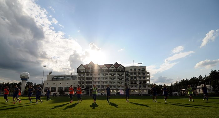 Dynamo Training Centre in Kyiv, Ukraine